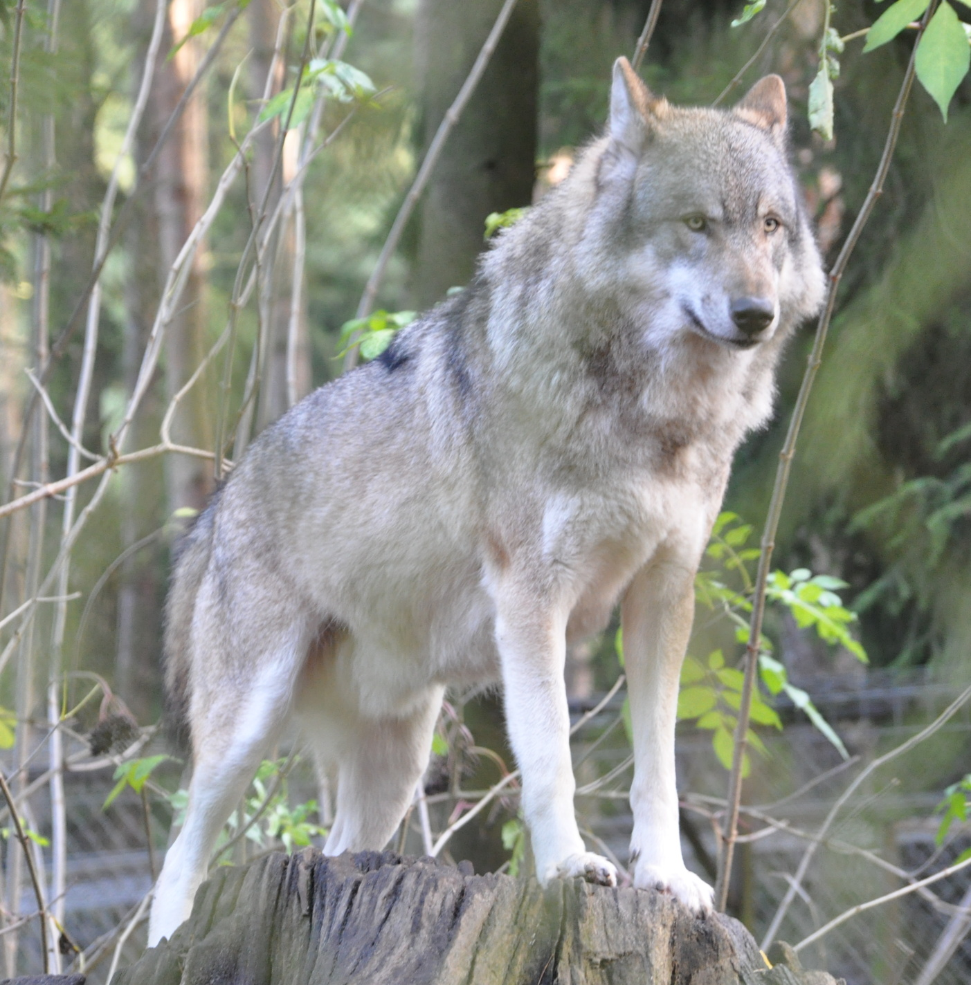 Gray Wolf (Canis lupus lupus) in the Lüneburg Heath wildlife park, Germany.